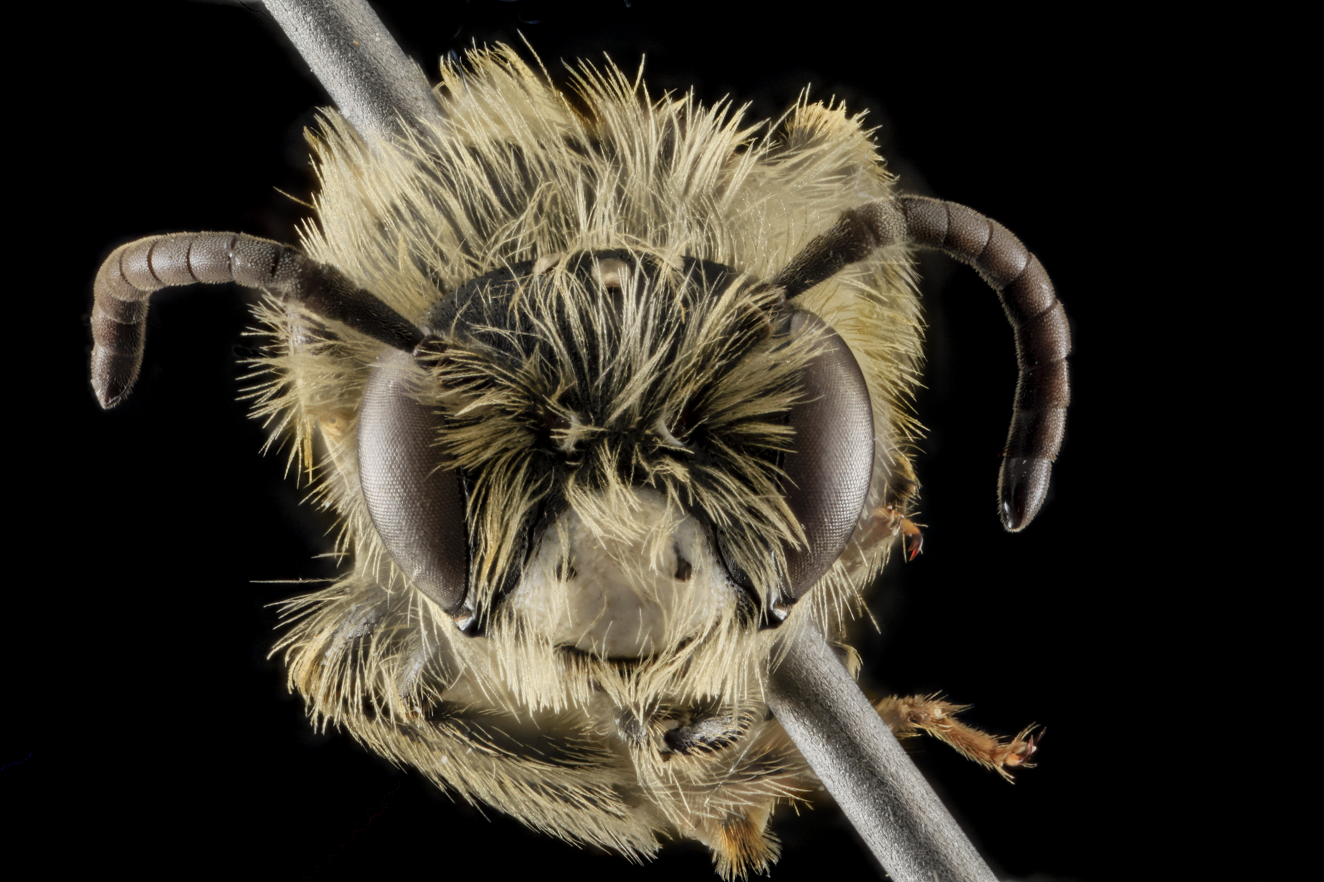 One of many small Andrenas out in the spring in Eastern North America. This one favors the pollen of brassicas. Photoshopping by Thistle Droege, photograph by Dejen Mengis. Photography Information: Canon Mark II 5D, Zerene Stacker, Stackshot Sled, 65mm Canon MP-E 1-5X macro lens, Twin Macro Flash in Styrofoam Cooler, F5.0, ISO 100, Shutter Speed 200